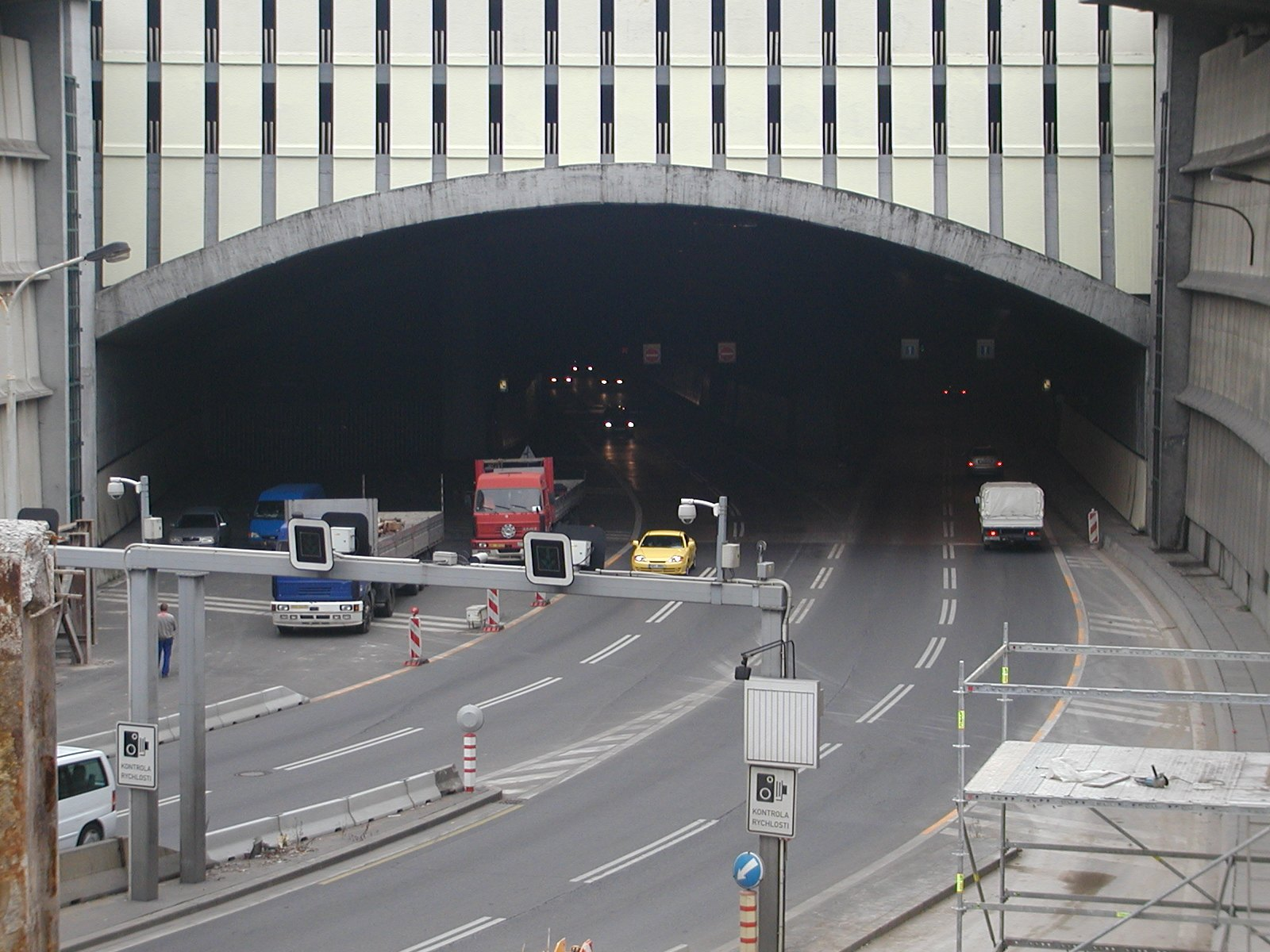 North portal of Strahovský tunnel